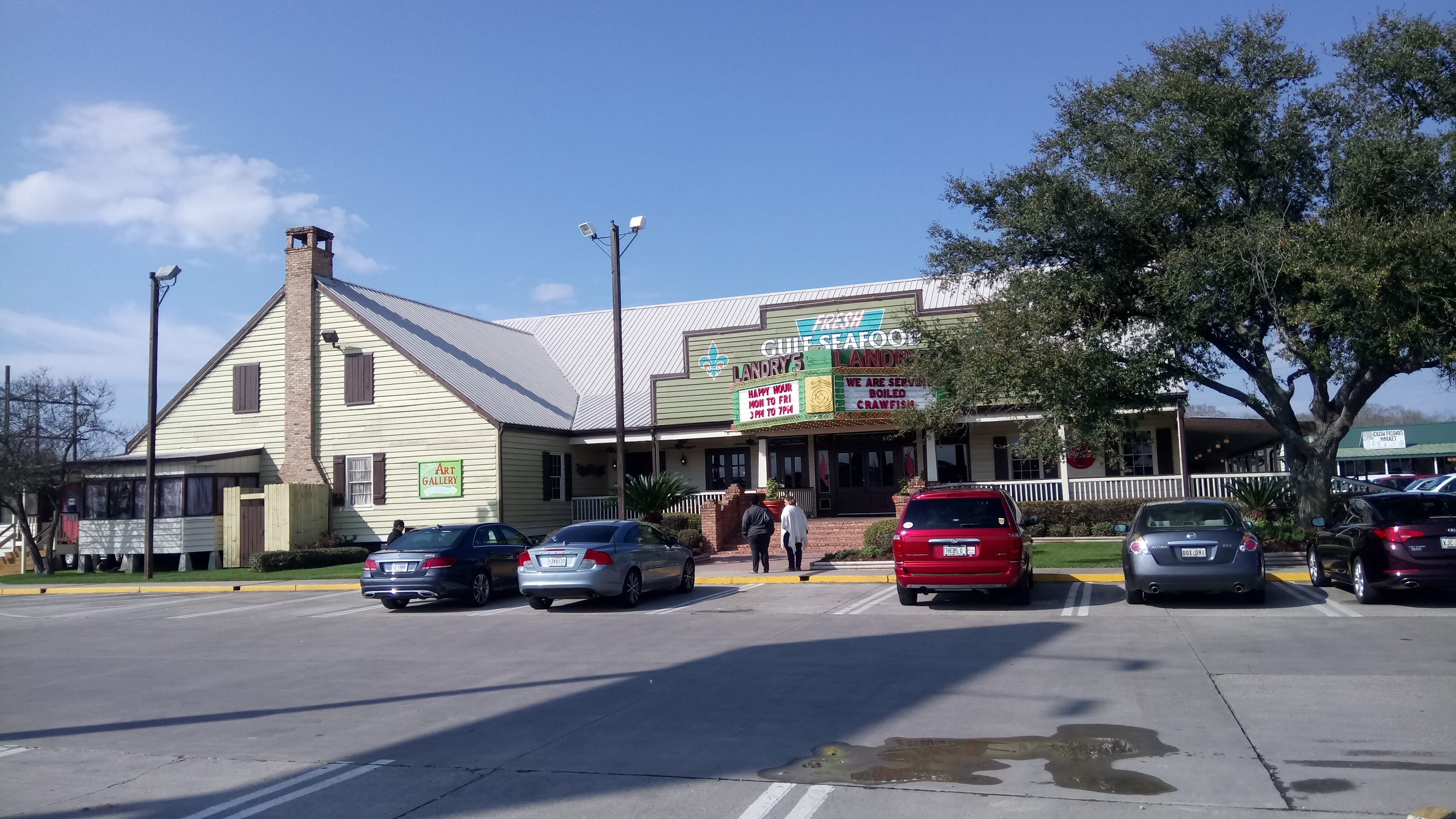 Landry's in Breaux Bridge